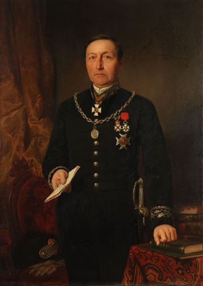 Mayor of Rotterdam